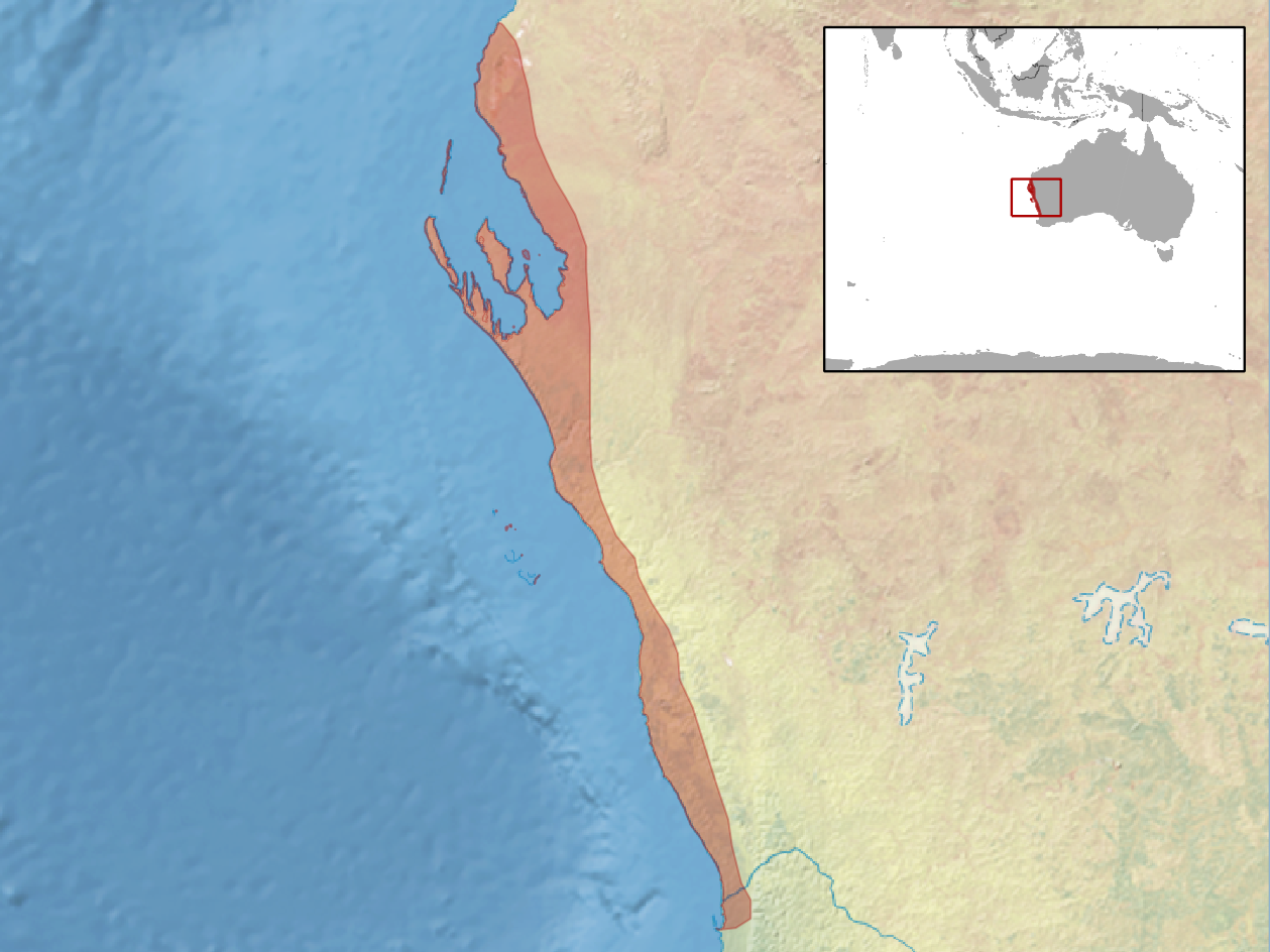 geographic distribution of Cyclodomorphus celatus